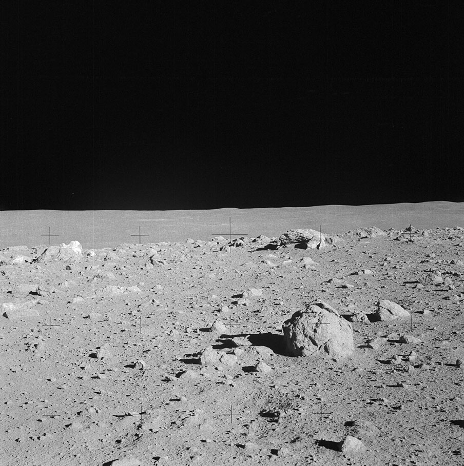 A photo taken on the Apollo 14 mission in the Fra Mauro highlands of the Moon showing a cluster of boulders on the rim of Cone crater during EVA-2.AS14-64-9101